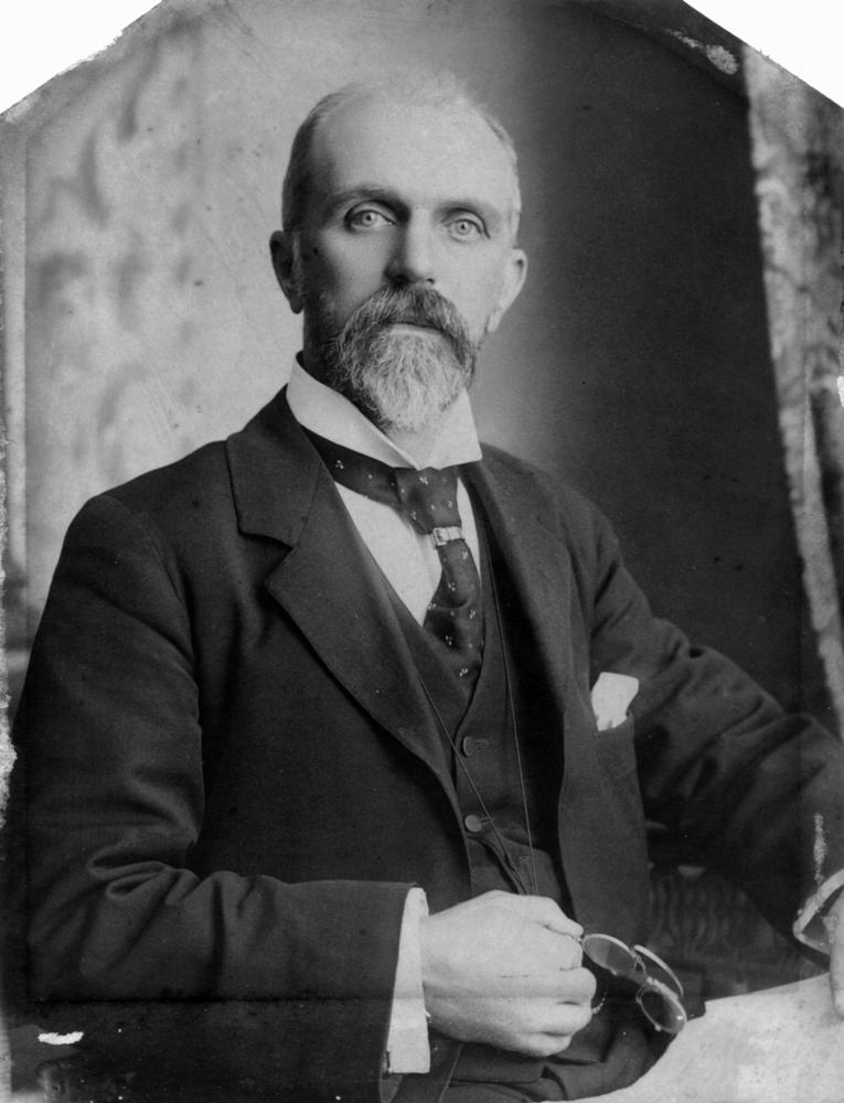 Thomas Bridson Cribb, 1901. Second son of Benjamin and Elizabeth Cribb, born 1 December 1845 in London. Accompanied his parents to Moreton Bay aboard the 'Chaseley' in 1849. Educated at Ipswich Boys' Grammar School. Entered his father's mercantile and banking business. Became a senior partner, retired in 1902. Deacon of the Ipswich Congregational Church. He married Marian Lucy Foote on 3 June 1874. Appointed to the Legislative Council on 23 May 1893, resigned three years later. He was again appointed in June 1913, but was too ill to serve. He died at his Southport home on 4 September 1913. (Description supplied with photograph.).